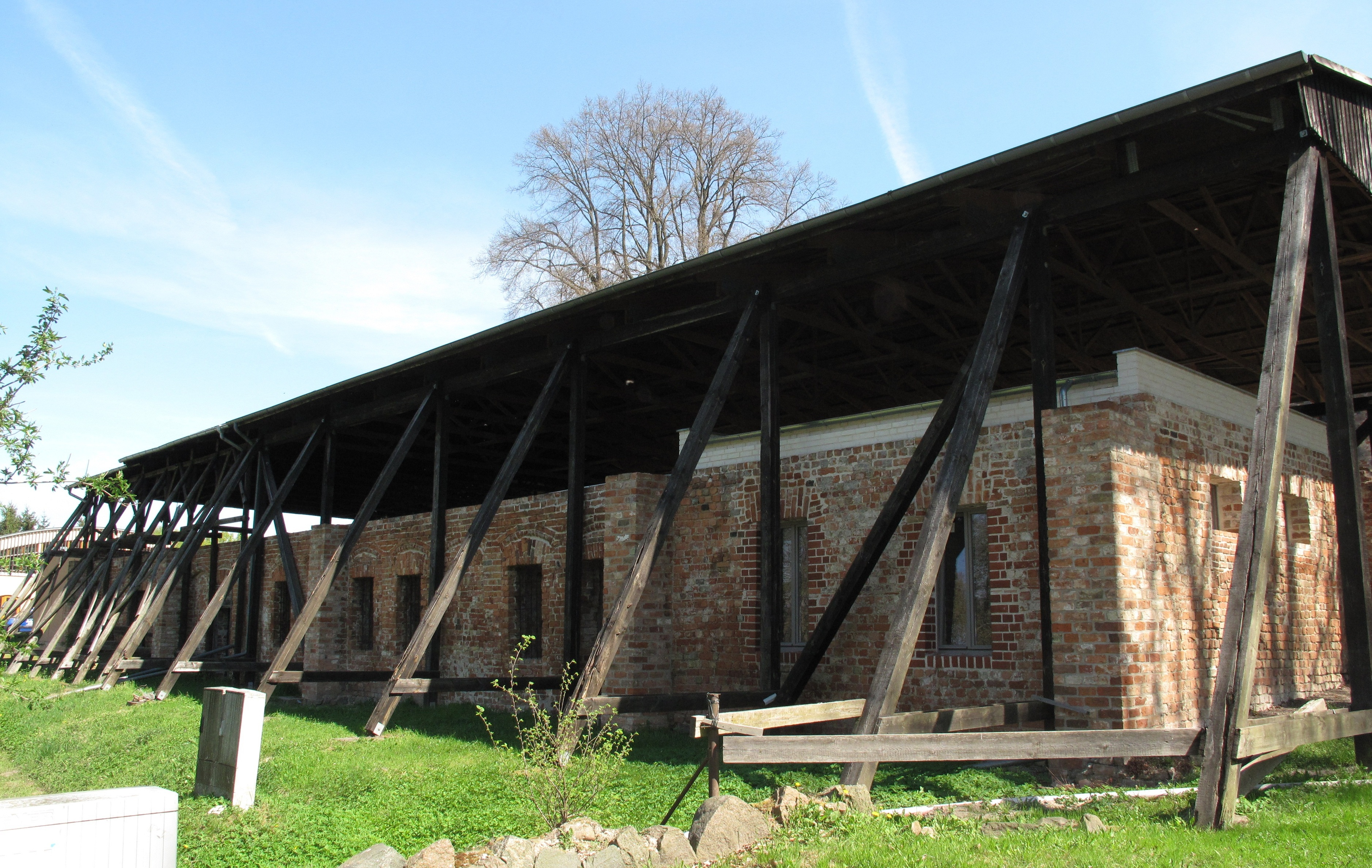 Refectory. The Kloster Friedland is a former Cistercian Nunnery in Altfriedland, a village of the municipality Neuhardenberg in the District Märkisch-Oderland, Brandenburg, Germany. The exact date of it's foundation being unknown. It was established not earlier than 1230 and at he latest in 1271. In 1540 it was disestablished and modified and extended into a representative estate. Of the monastery-buildings have been preserved remains of a cloister and of the refectory as well as the Klosterkirche Altfriedland, the several times remodelled early gothic-Fieldstone church. All these buildings are listed.